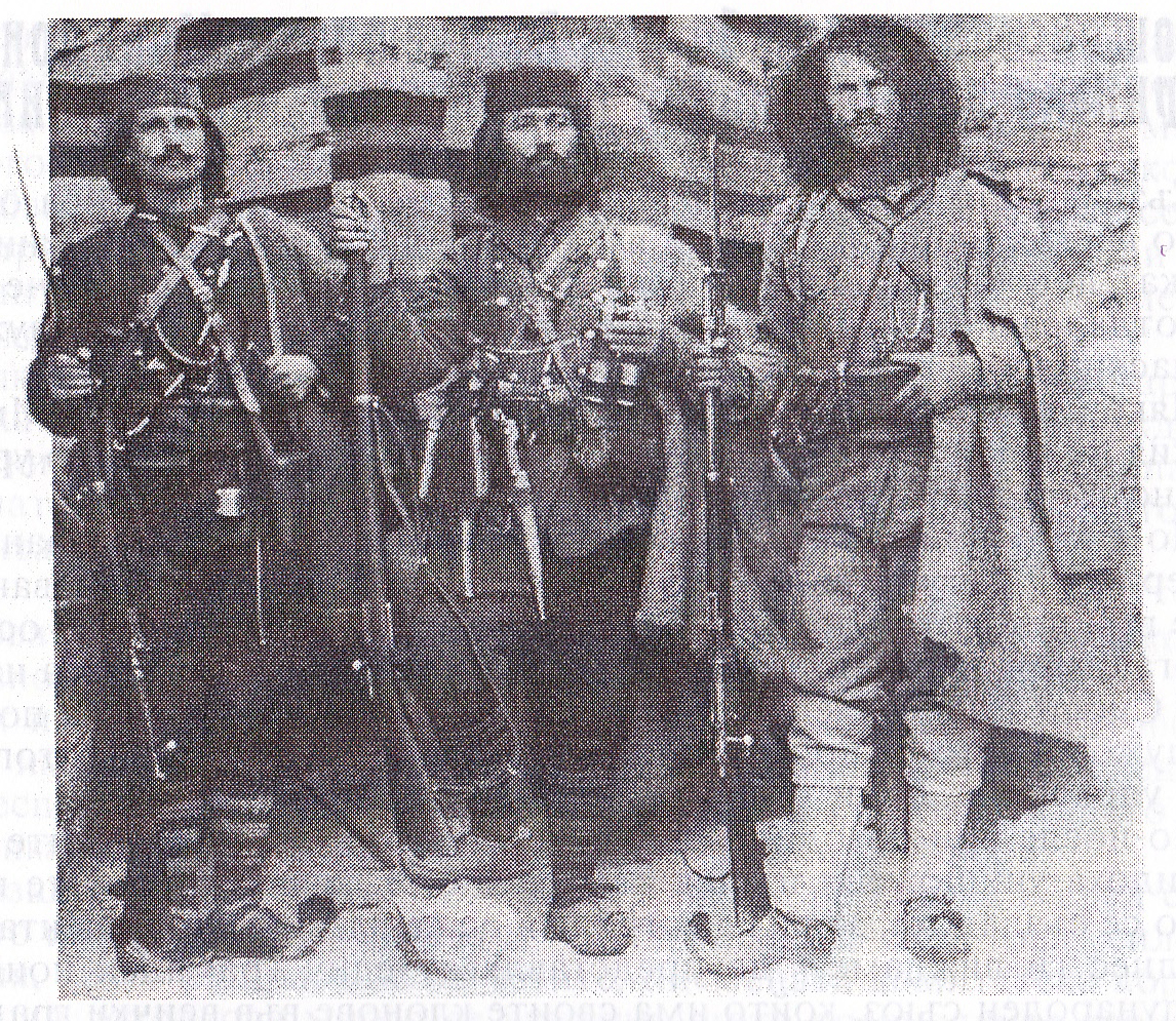 bulgarian revolutionary/ies